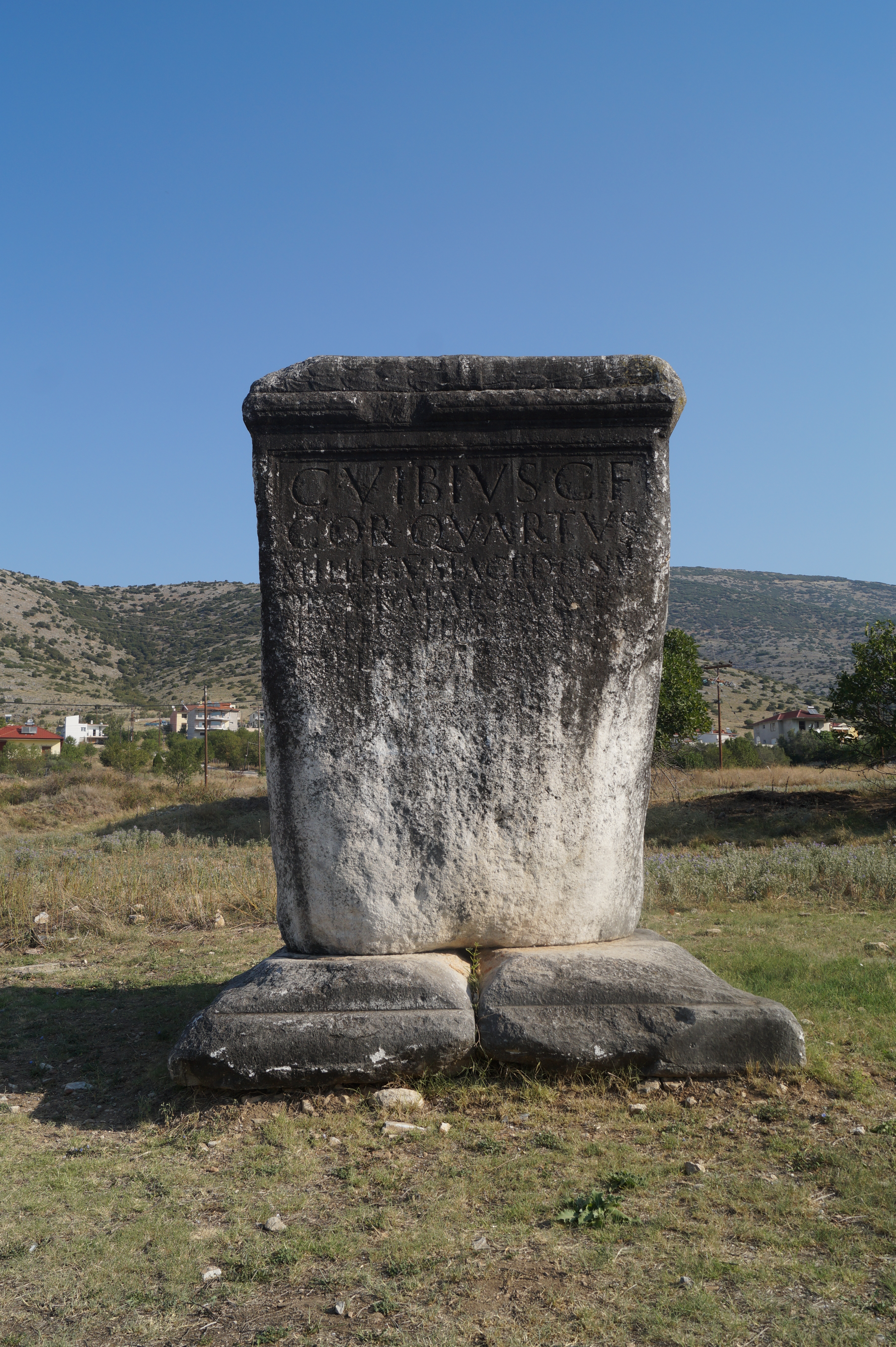 Krinides, Makedonia, Greece: Caius Vibius Quartus Monument near the village of Krinides and the prehistoric tell Dikili Tash. View from south.